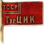 TSSR ensign